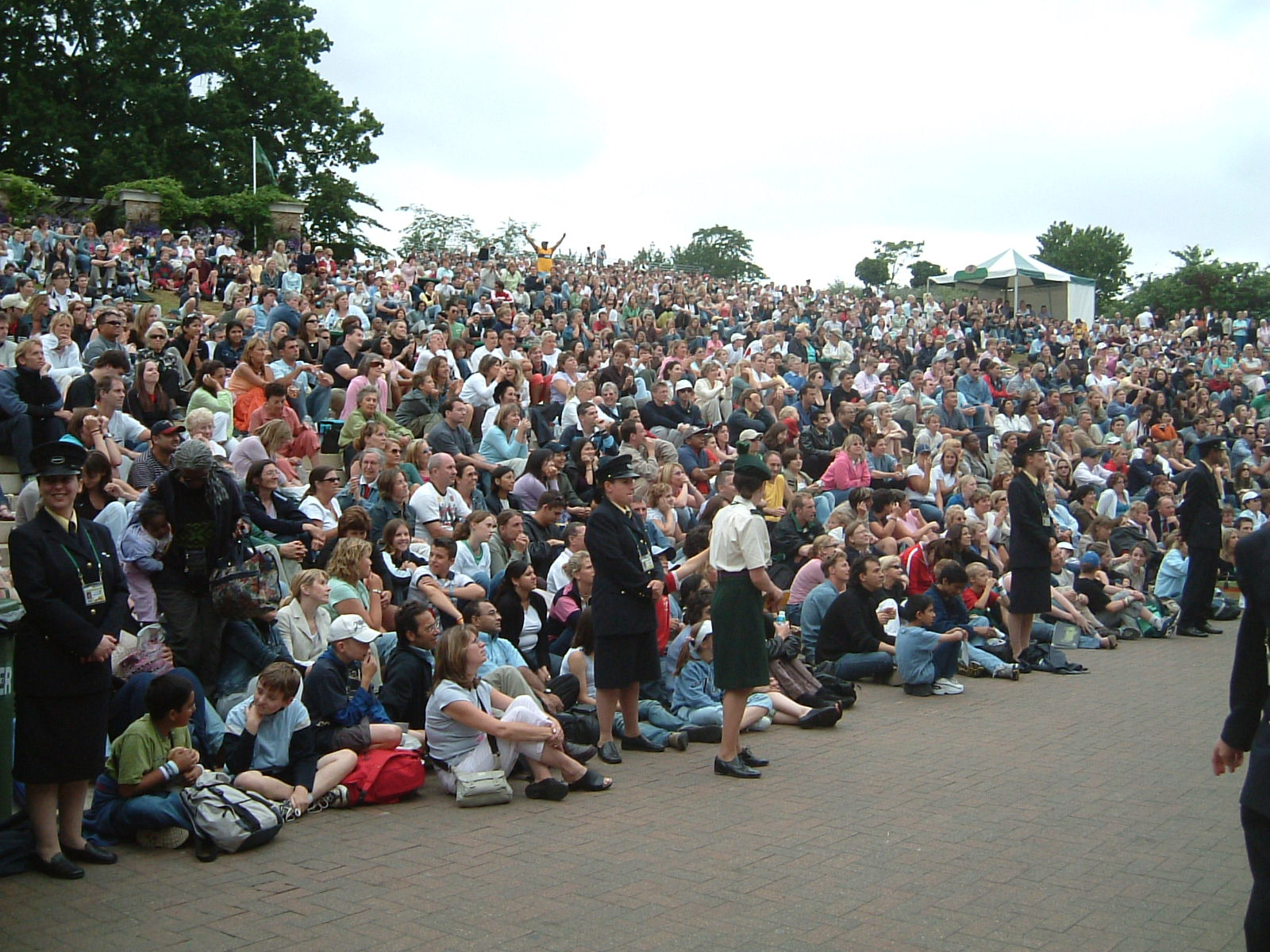 thumb|Henman Hill - front view